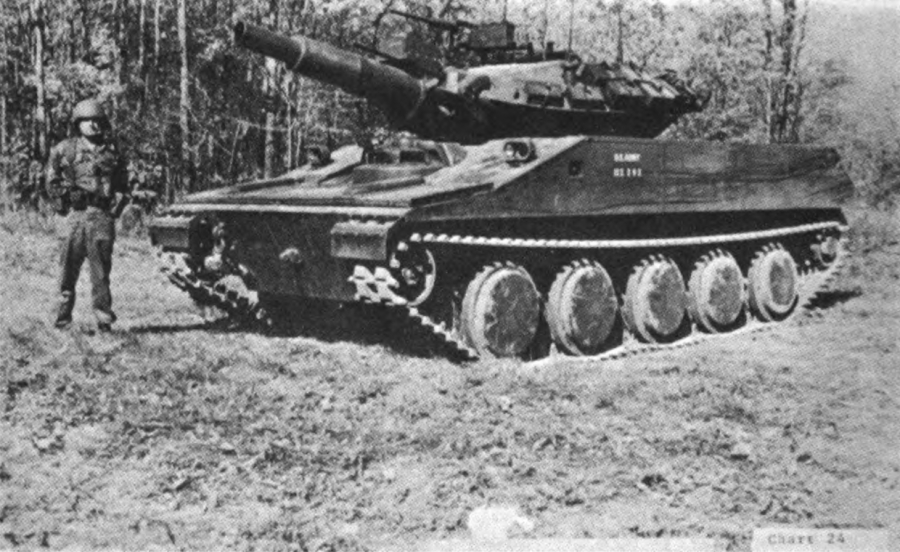 M551 Armored Reconnaissance Airborne Assault Vehicle, known as the General Sheridan.